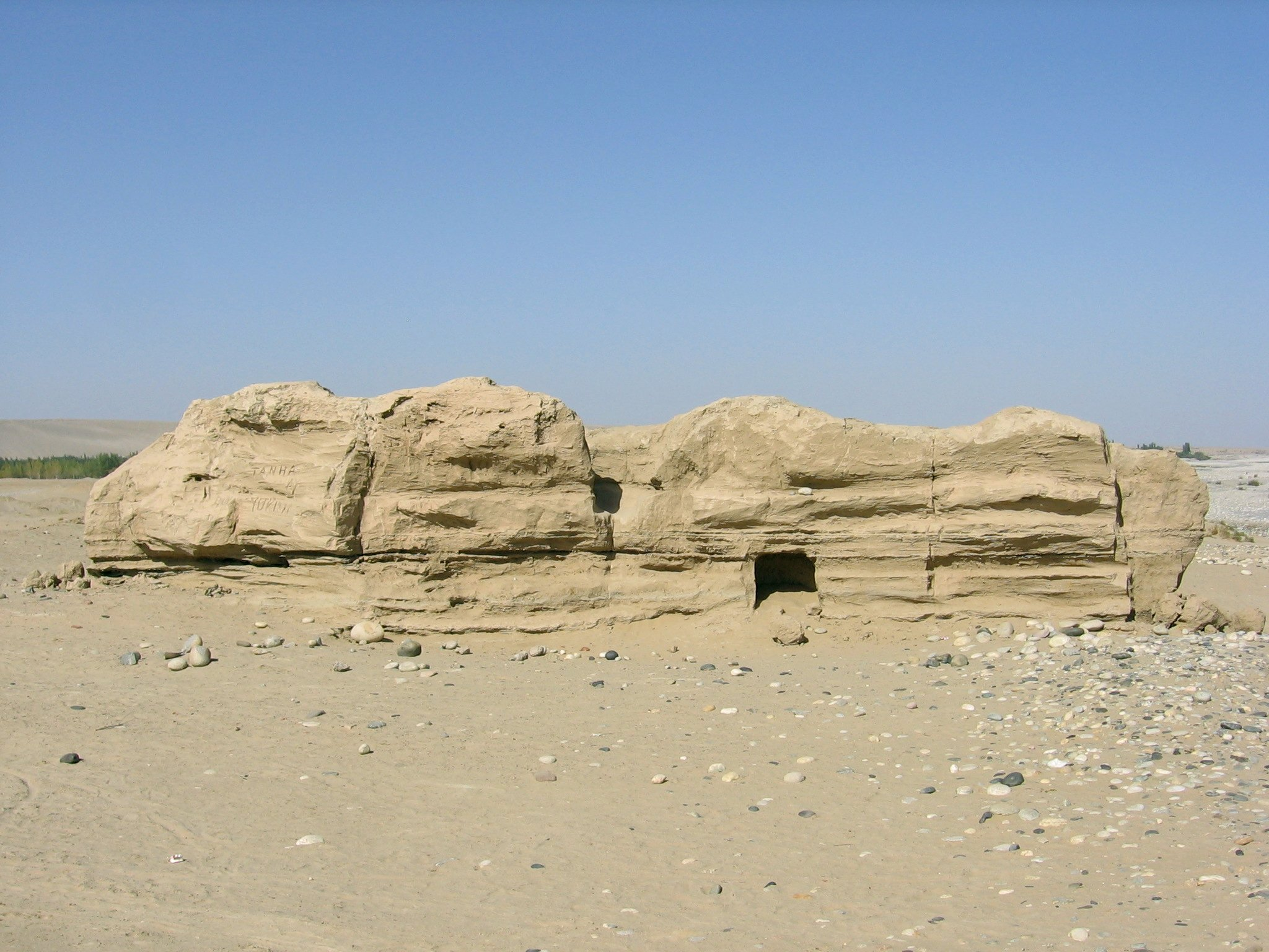 Khotan (Hotan / Hetian) is an oasis city in the Xinjiang Uygur Autonomous Region of the People's Republic of China. Melikawat Ruins.